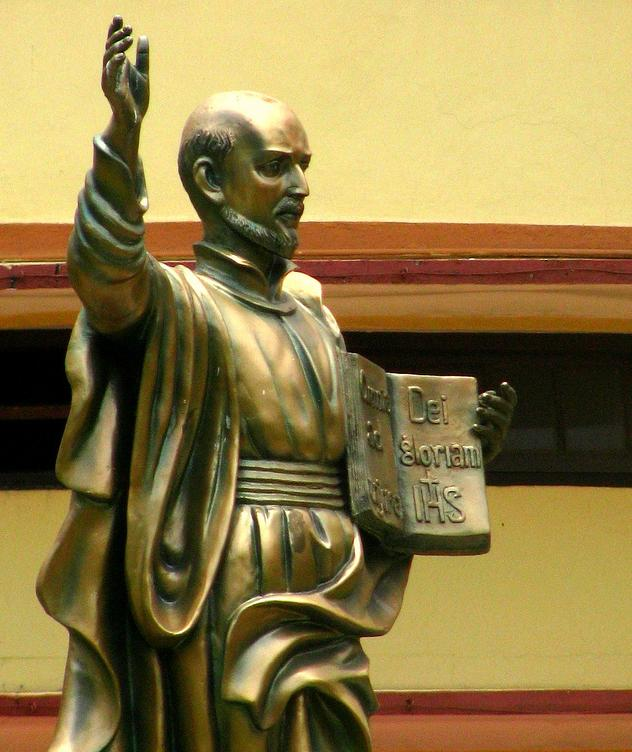 Ignatius of Loyola.